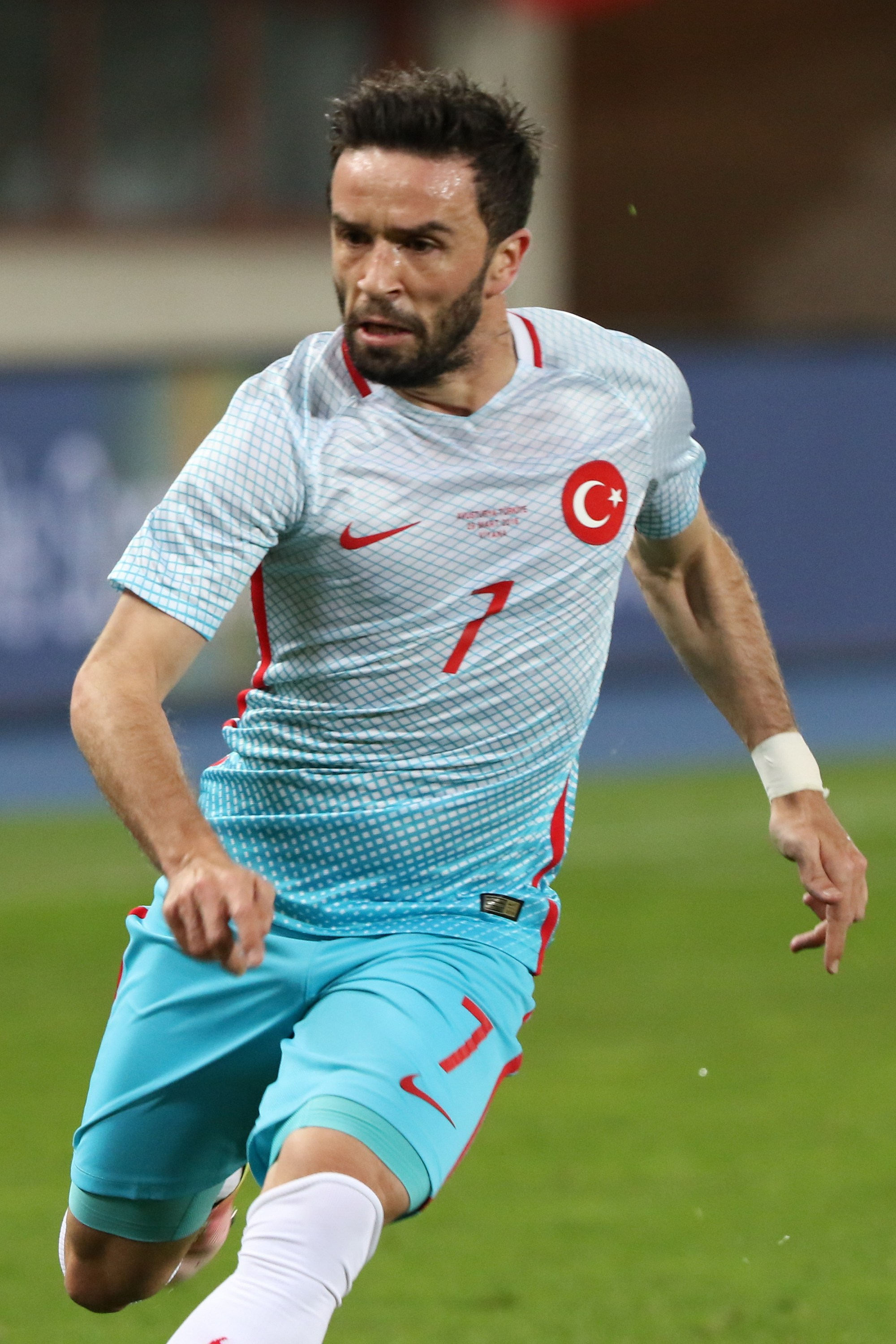 Friendly match – Austria (red shirts) vs. Turkey (blue shirts) 1–2 (1–1) on 2016-03-29 in Ernst-Happel-Stadion, Vienna – The photo shows Gökhan Gönül (Fenerbahçe).